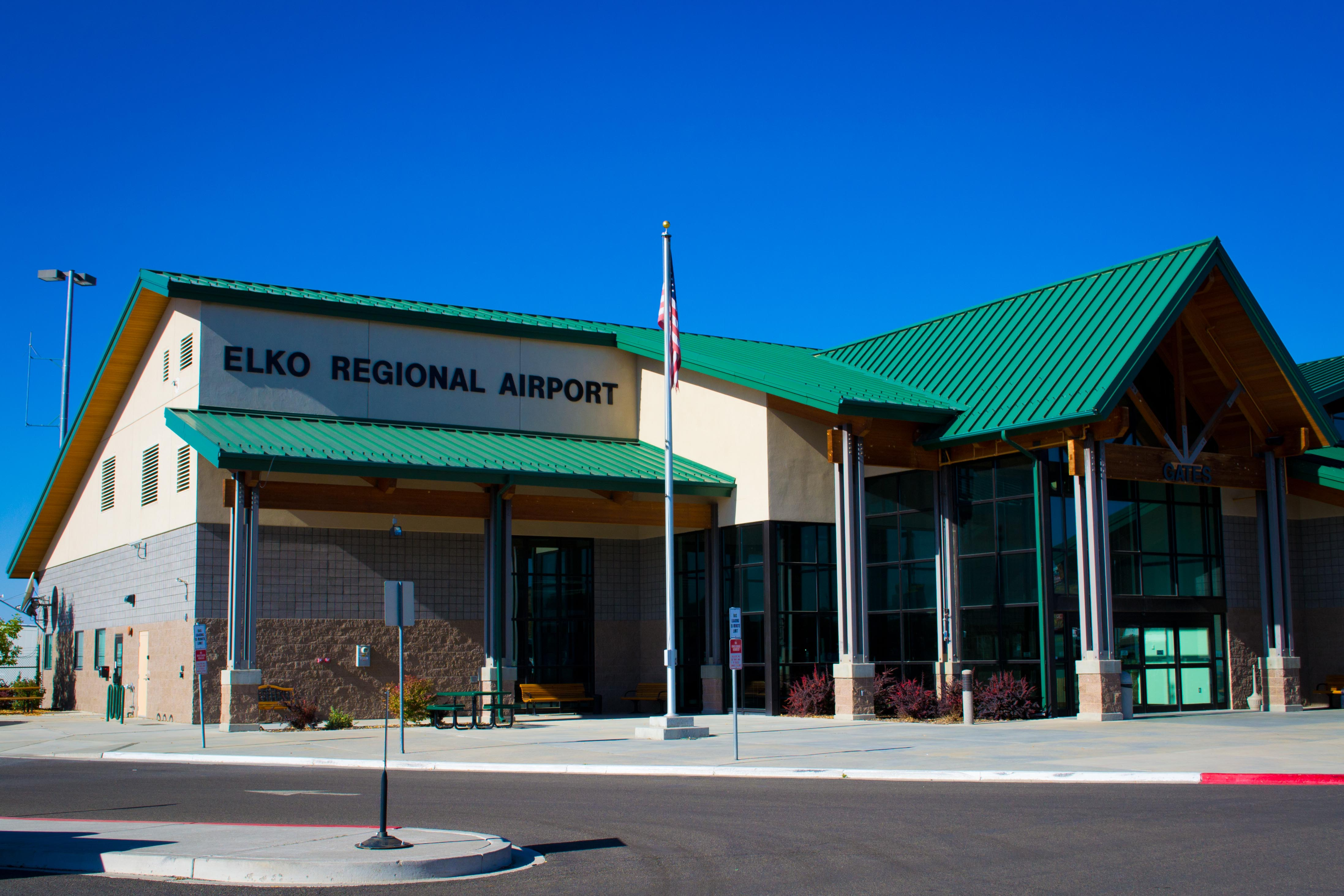 Airport in Elko, Nevada